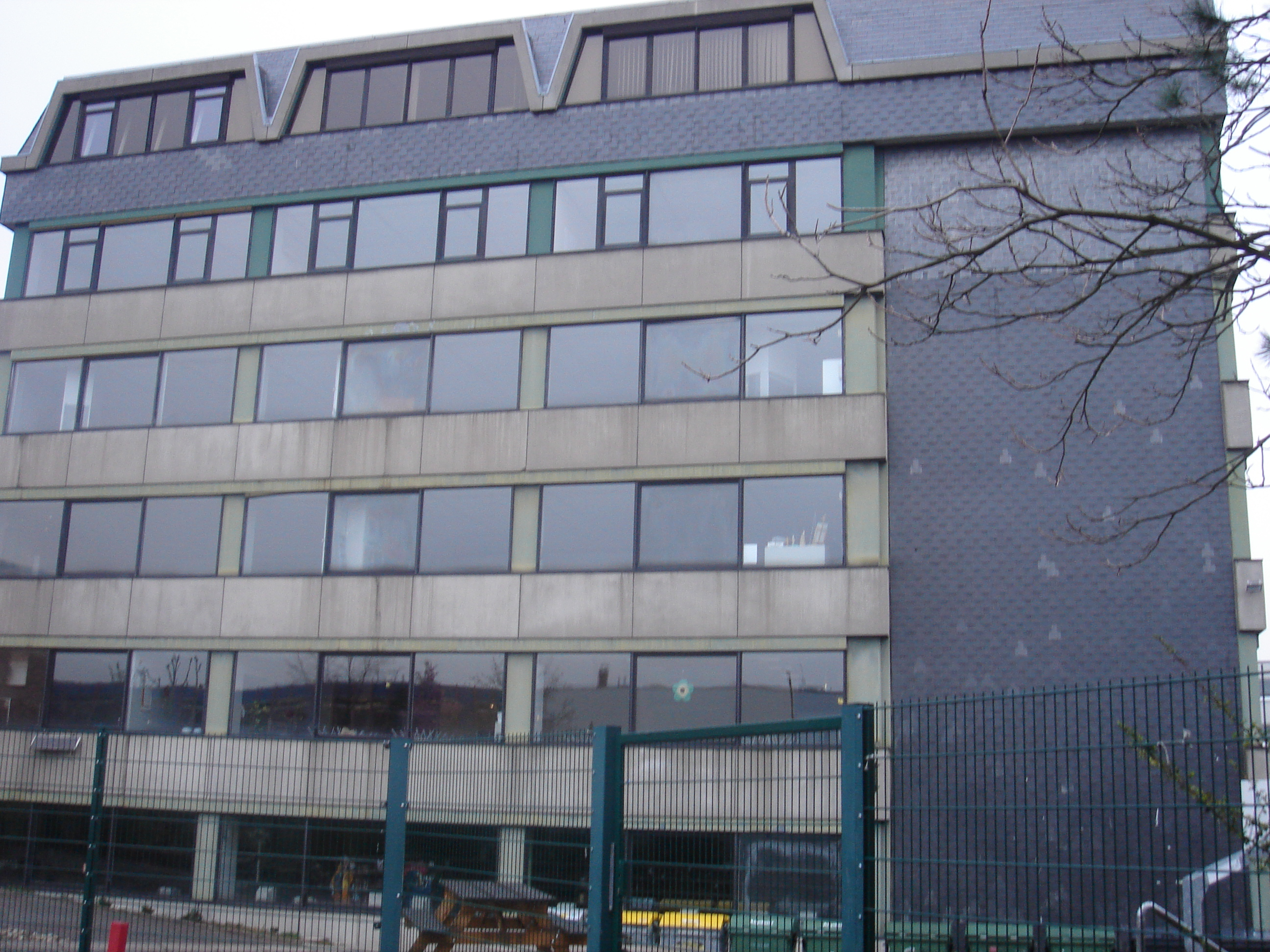 Old building of the Humboldtschule, Bad Homburg vor der Höhe, Germany